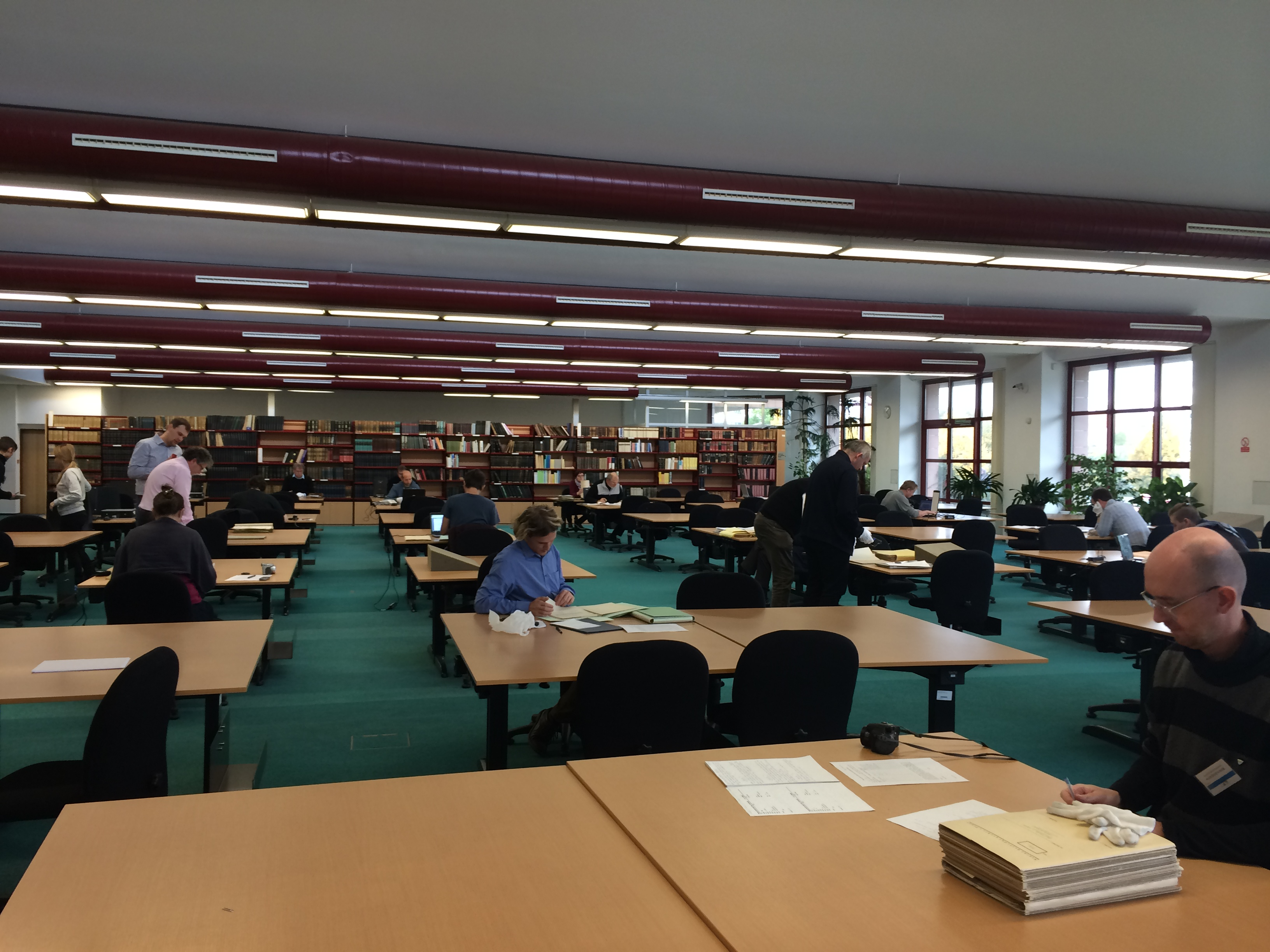 National Archives (Czech Republic)